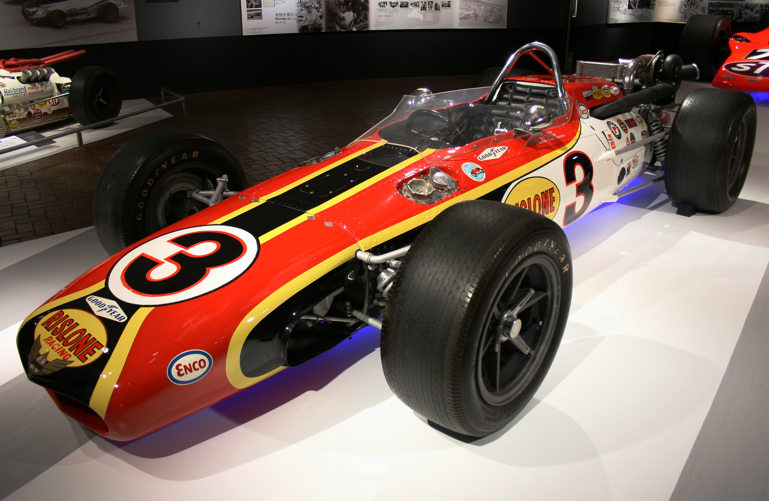 The Rislone Racing's Eagle-Offy; Bobby Unser won the 1968 Indianapolis 500 with the car. From Indianapolis Motor Speedway Hall of Fame Museum.